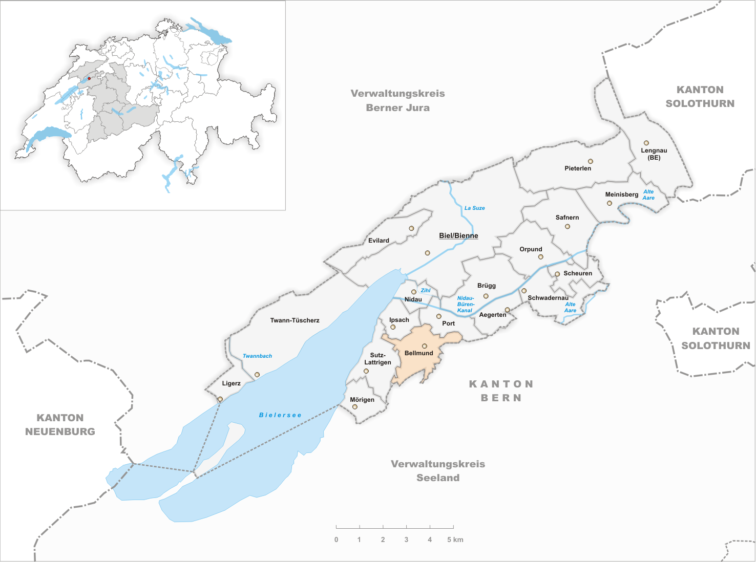 Municipality Bellmund